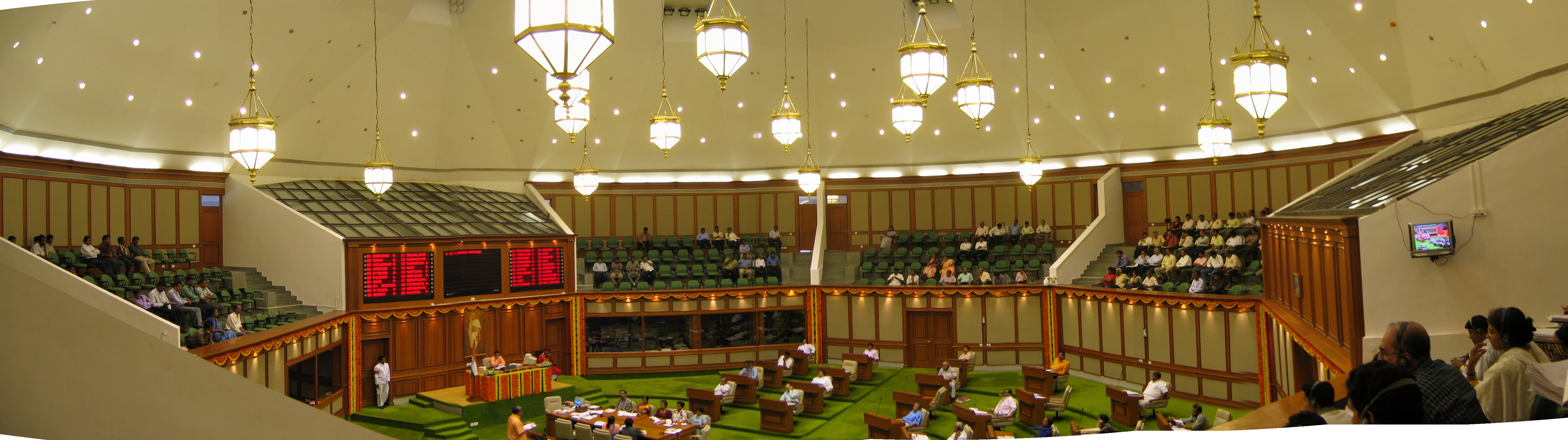 Goa legislative assembly, interior view. Photo by Frederick "FN" Noronha. 2004.